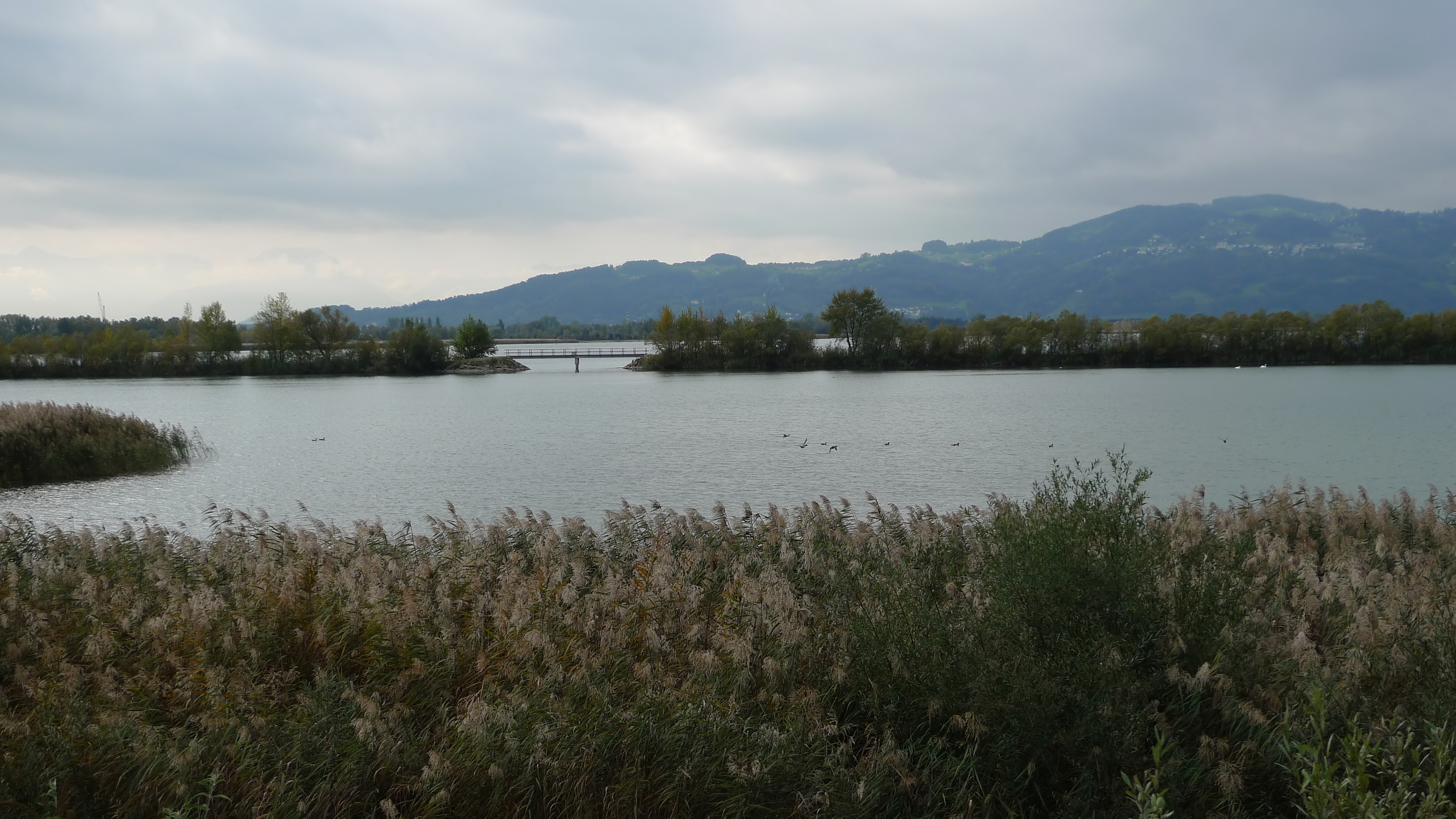 Nature reserve Rheindelta (Lake Constance) - Lagoon near Rhine estuary